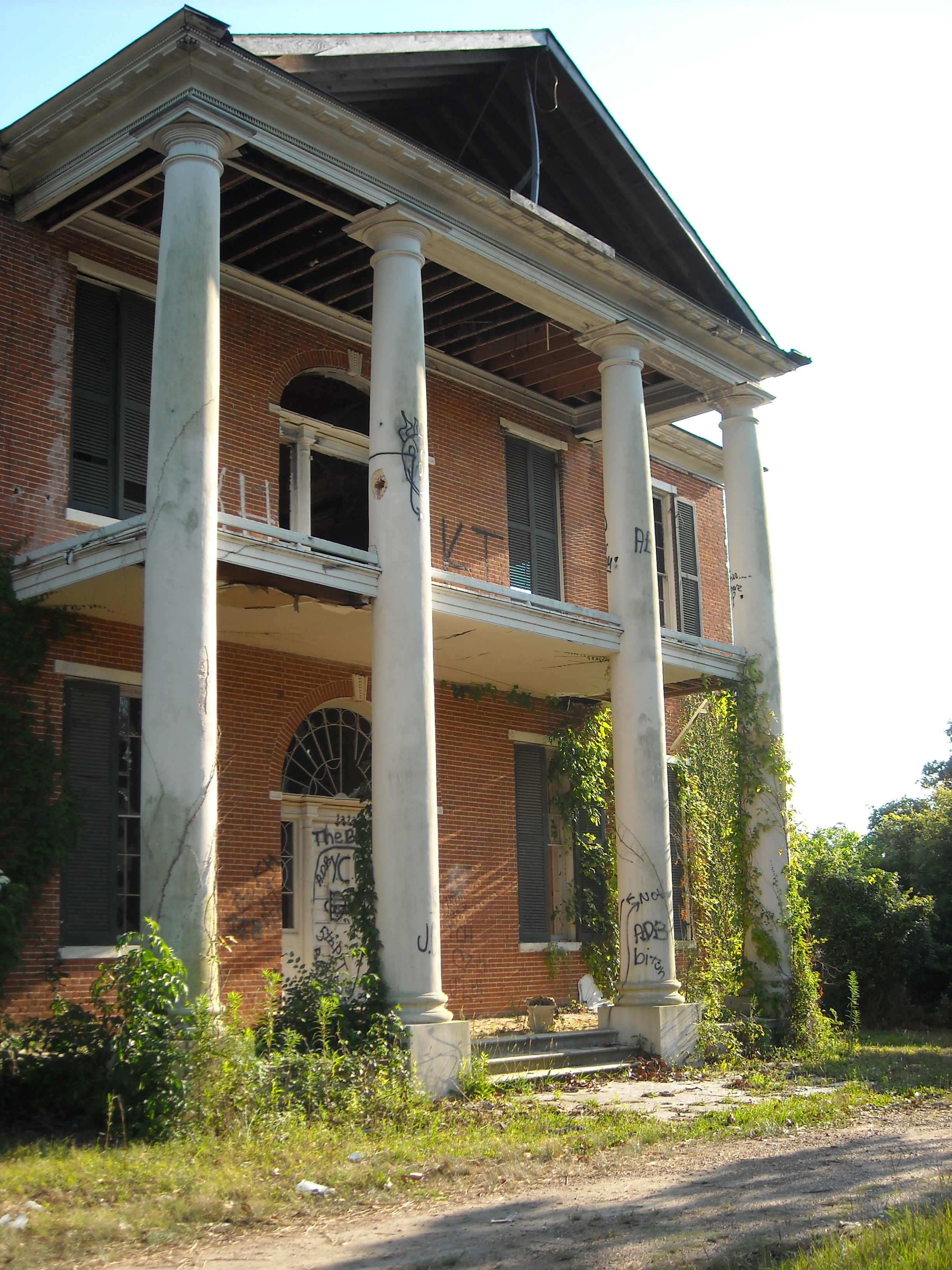 Abandoned mansion in Natchez (Arlington)